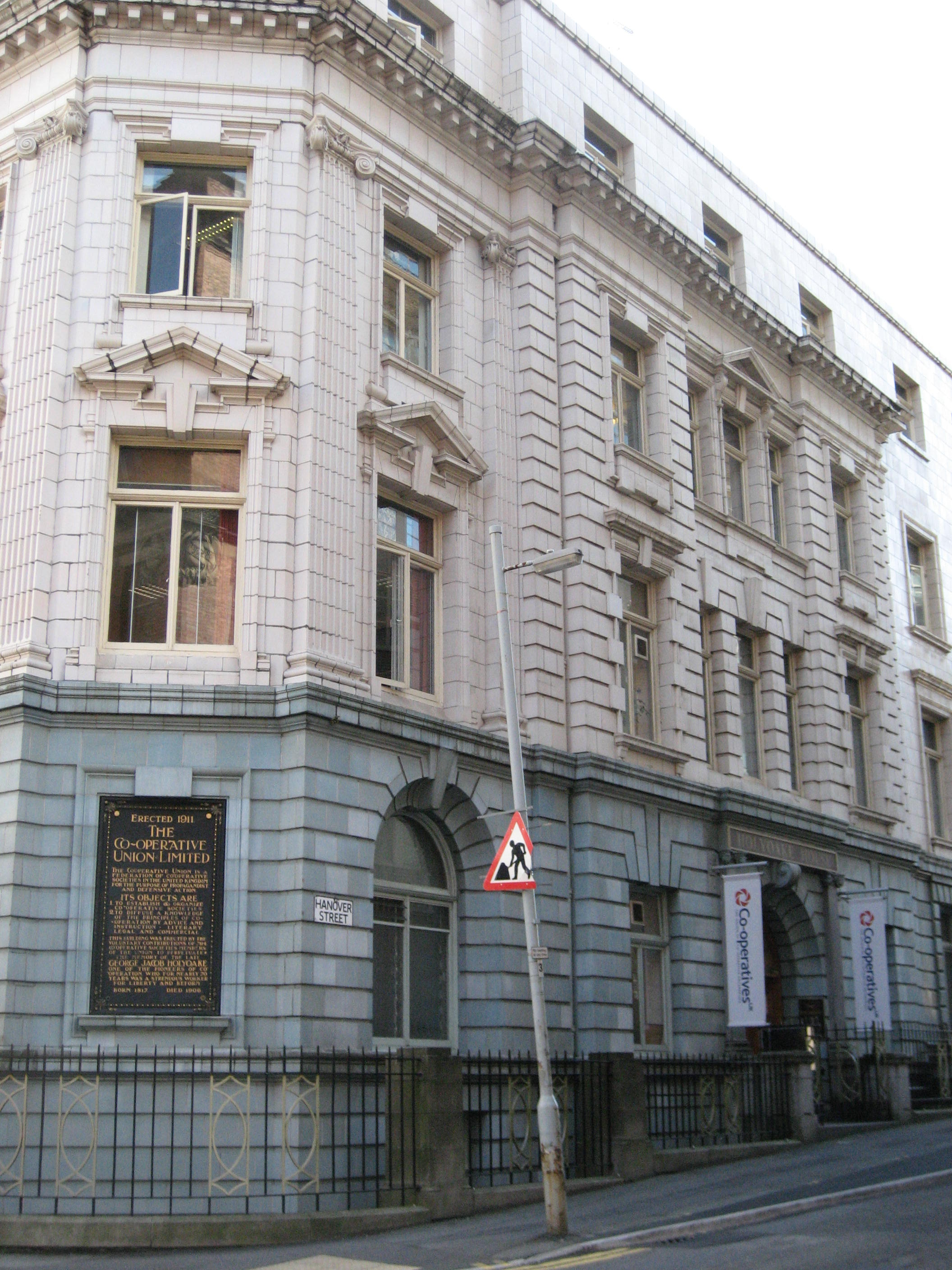 Holyoake House, head office of Co-operativesUK.